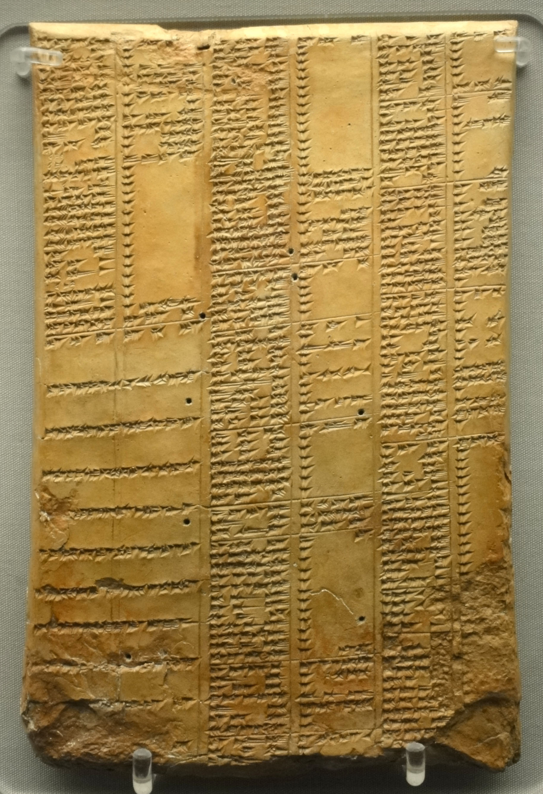 Cuneiform synonym list tablet from the Library of Ashurbanipal. Neo-Assyrian period (934 BC - 608 BC).